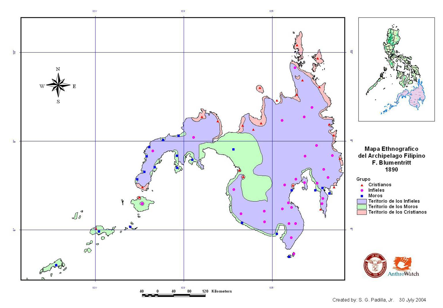 Map of Mindanao circa 1890 showing effective areas of control